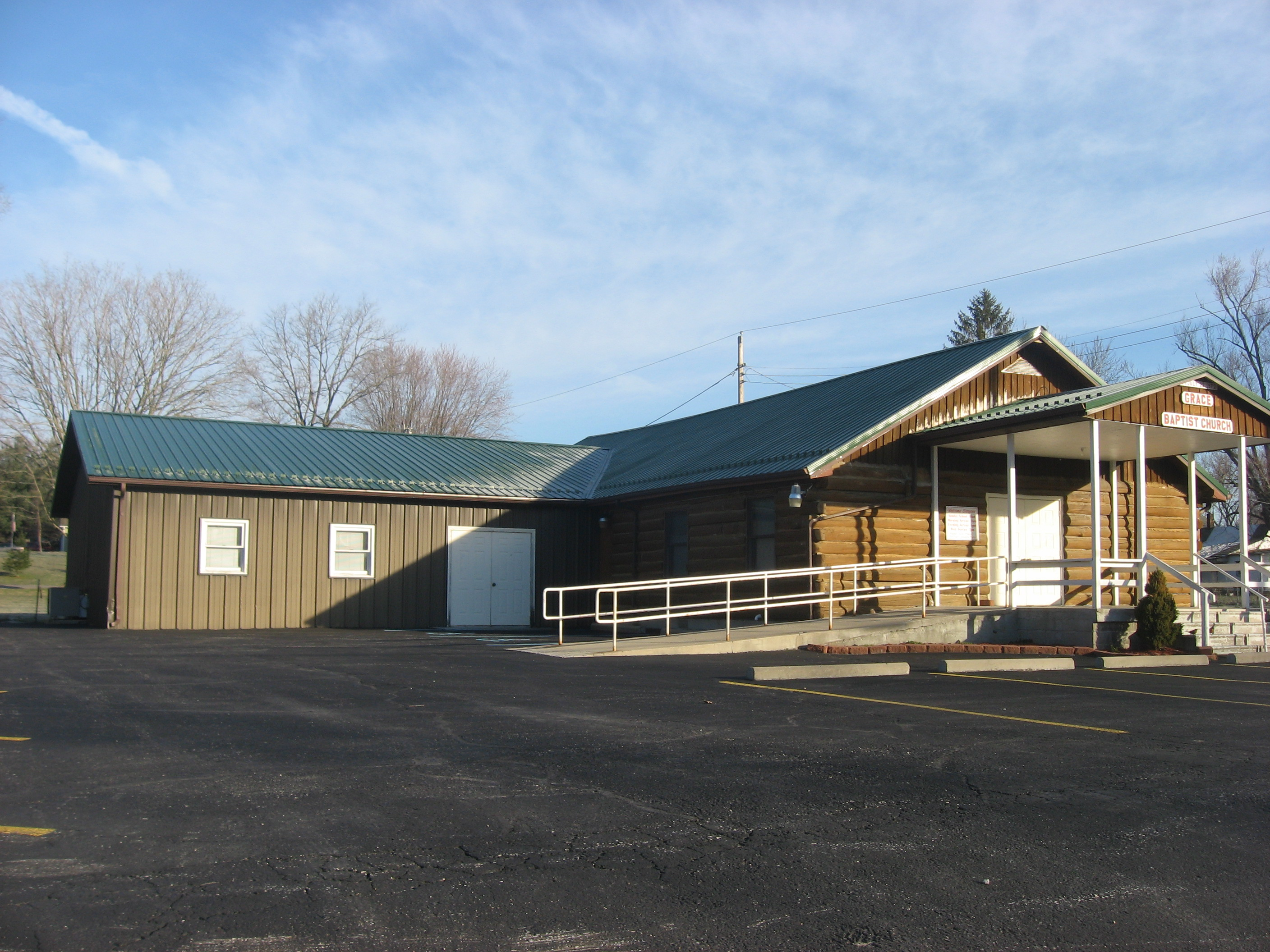 Front of Grace Baptist Church, located at 15 Springville-Judah Road at Springville in Perry Township, Lawrence County, Indiana, United States.